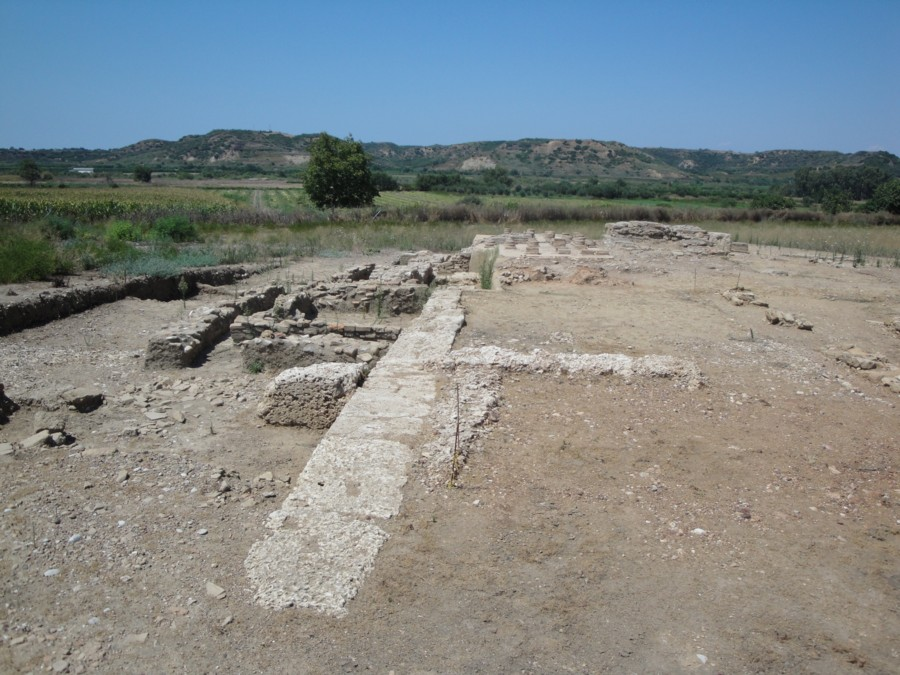 A view of the Agora